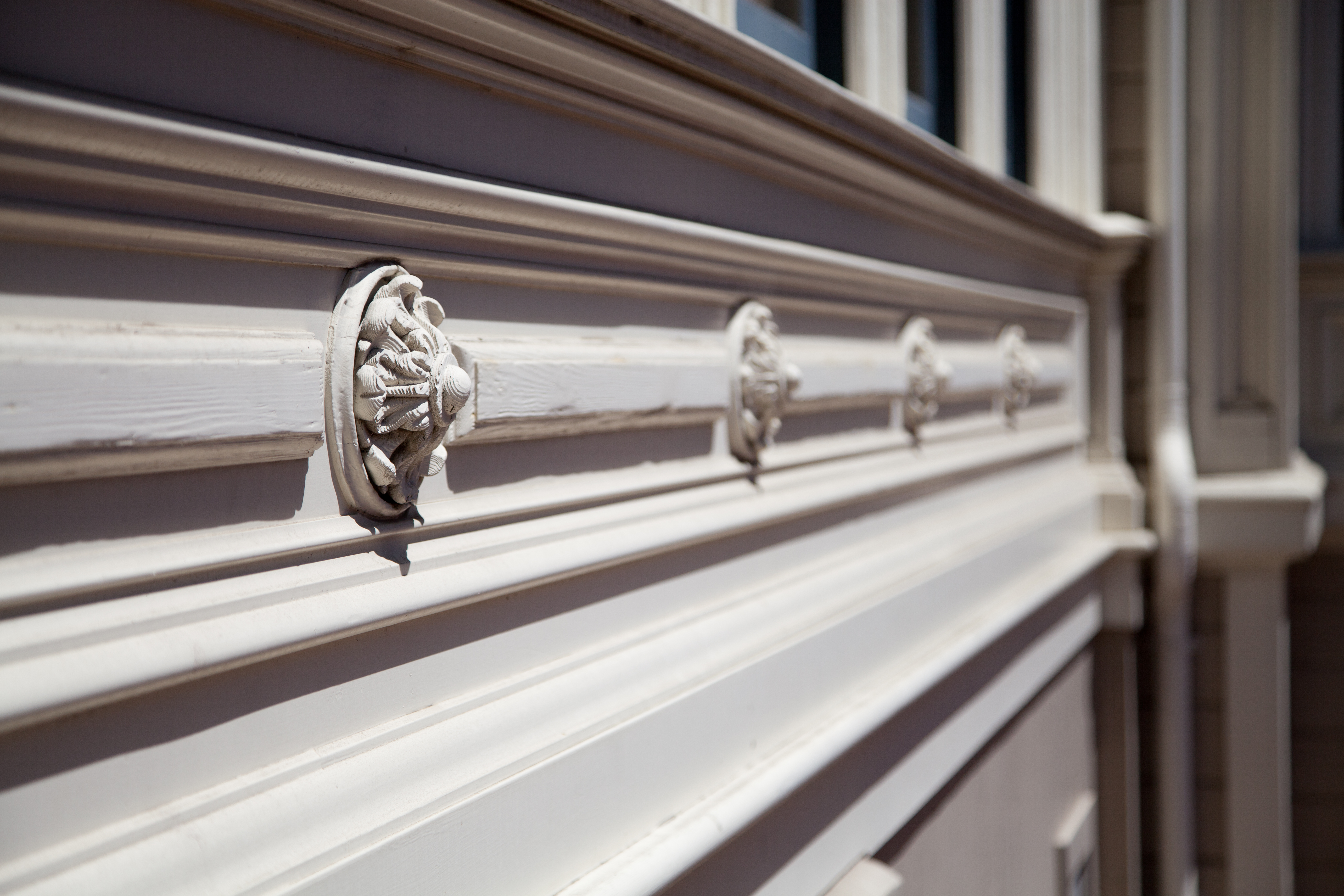 Cameron-Stanford House